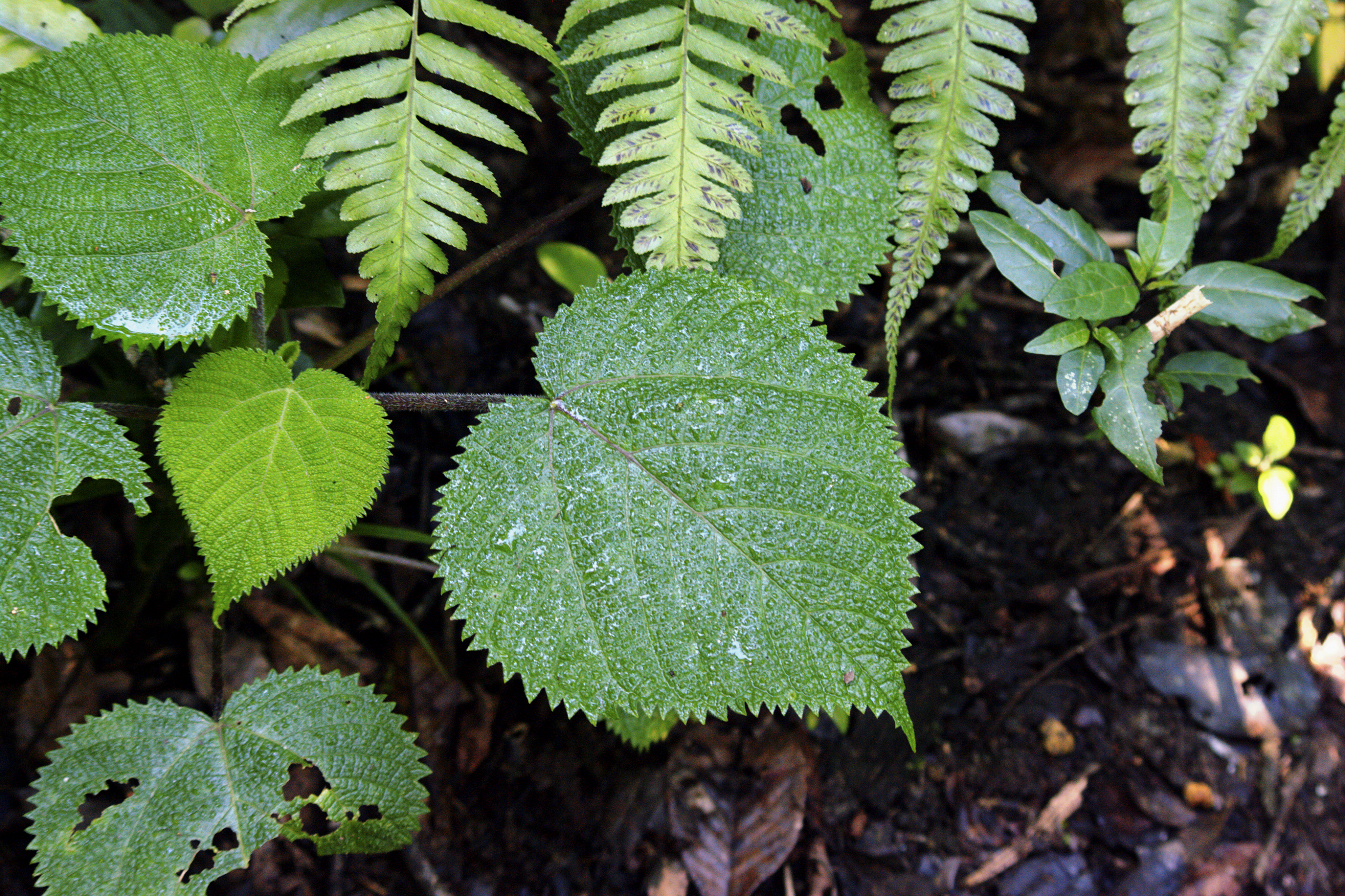 Stinging Tree in far north Queensland